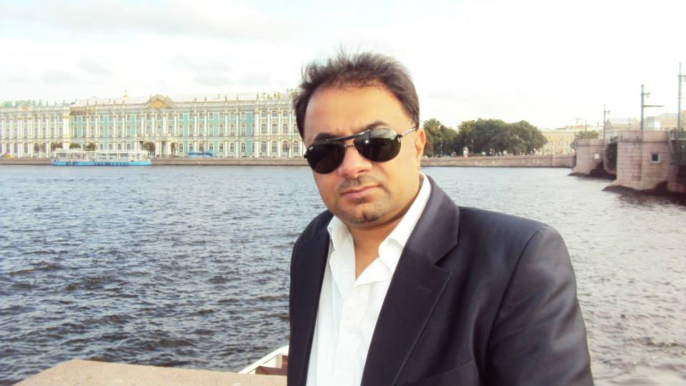 Mir Sher Alam Marri Baloch